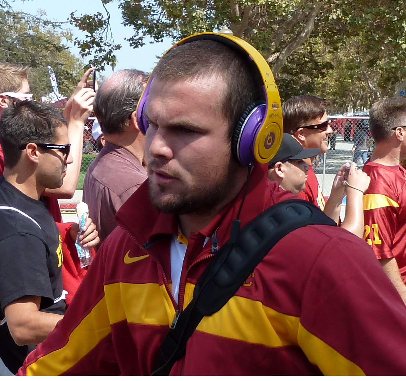 Andre Heidari on the Trojan walk before a game in the 2011 USC Trojans season.